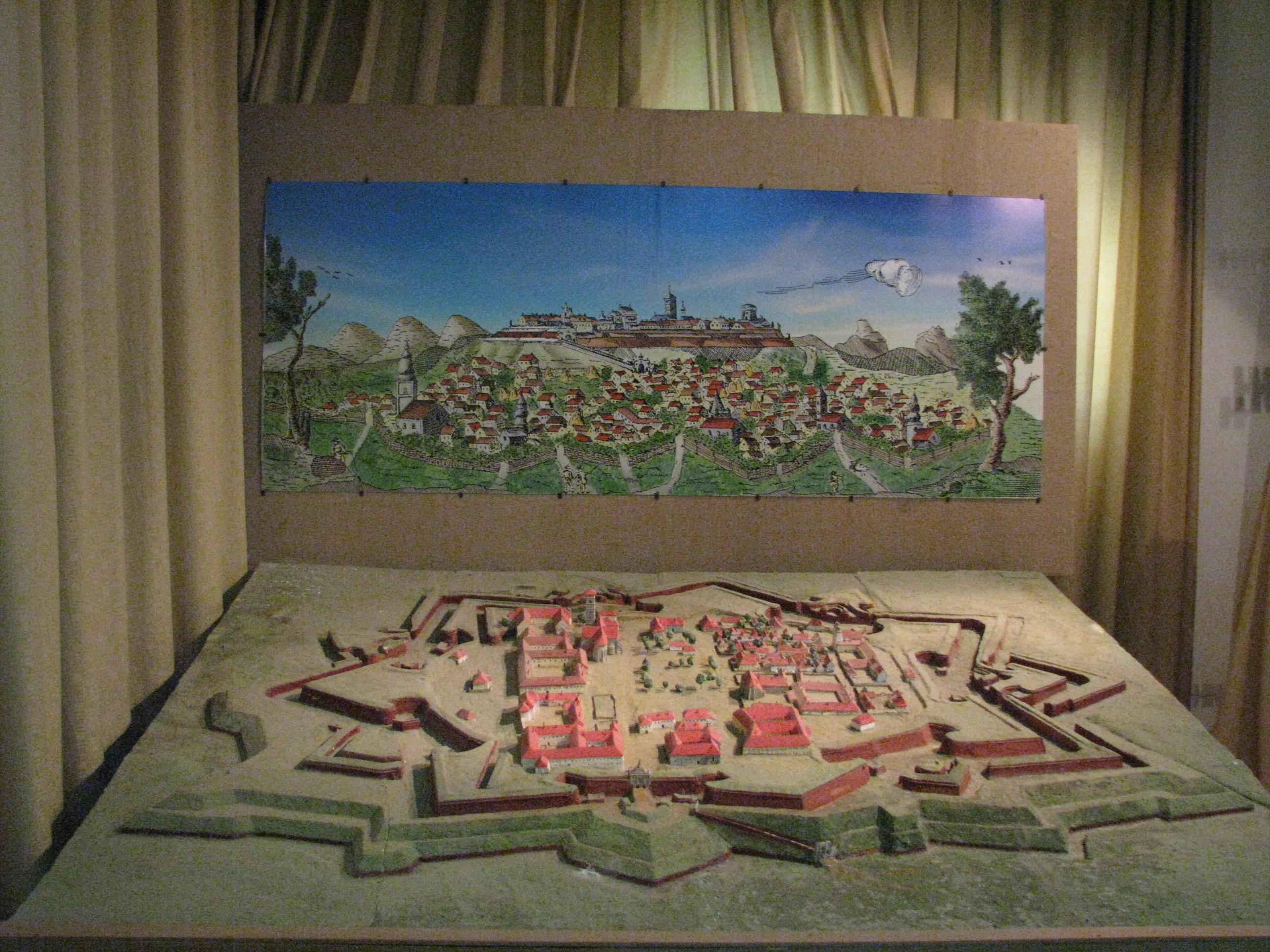 Alba Iulia National Museum of the Union 2011